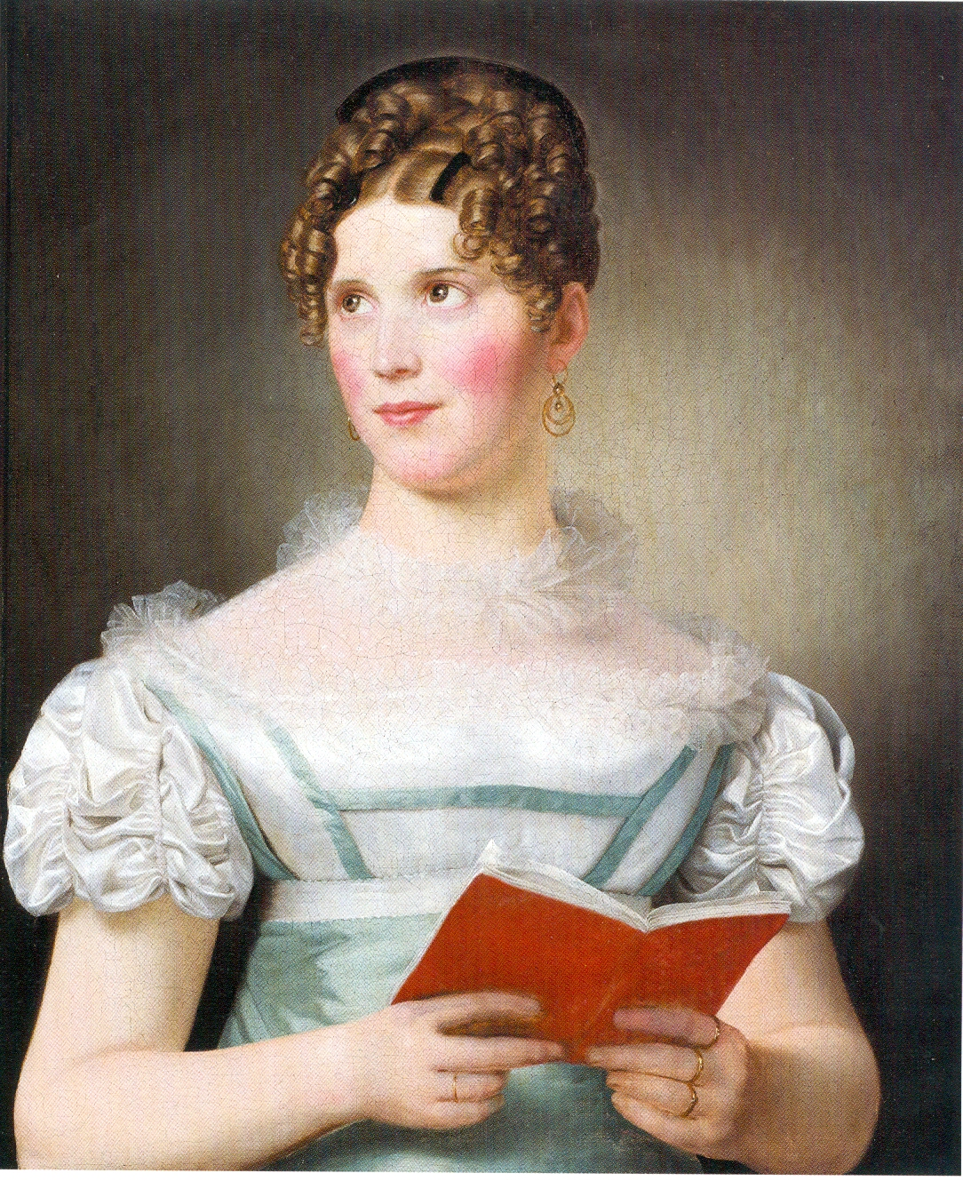 Birgitte Elisabeth Andersen, née Olsen (1791-1875) was an acclaimed acctress at the Danish Royal Theater.